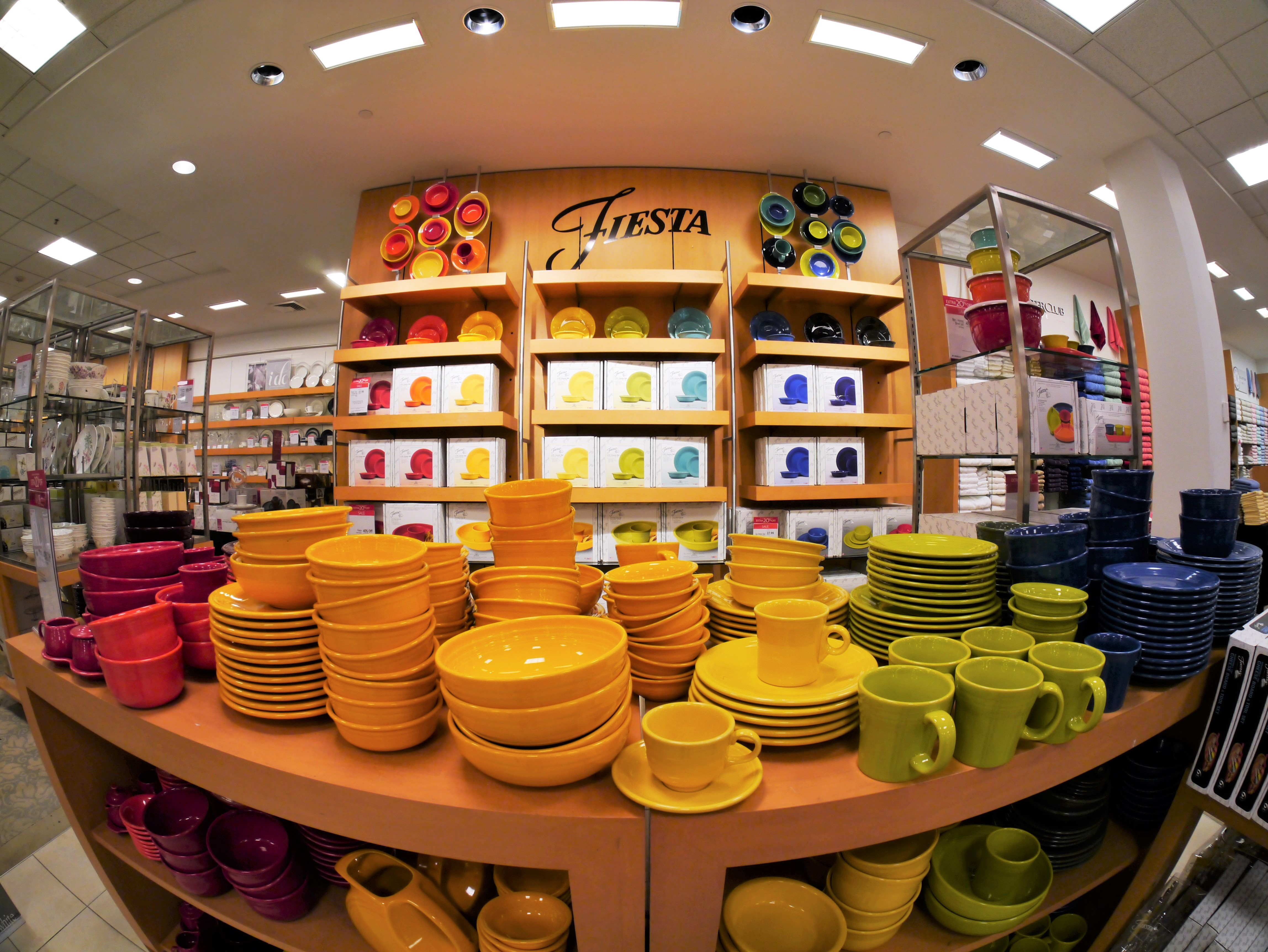 New Fiestaware at Macy's in East Wenatchee, Washington